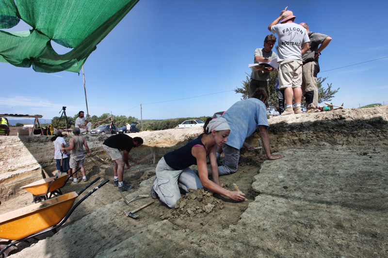 jaciment del Camp dels Ninots